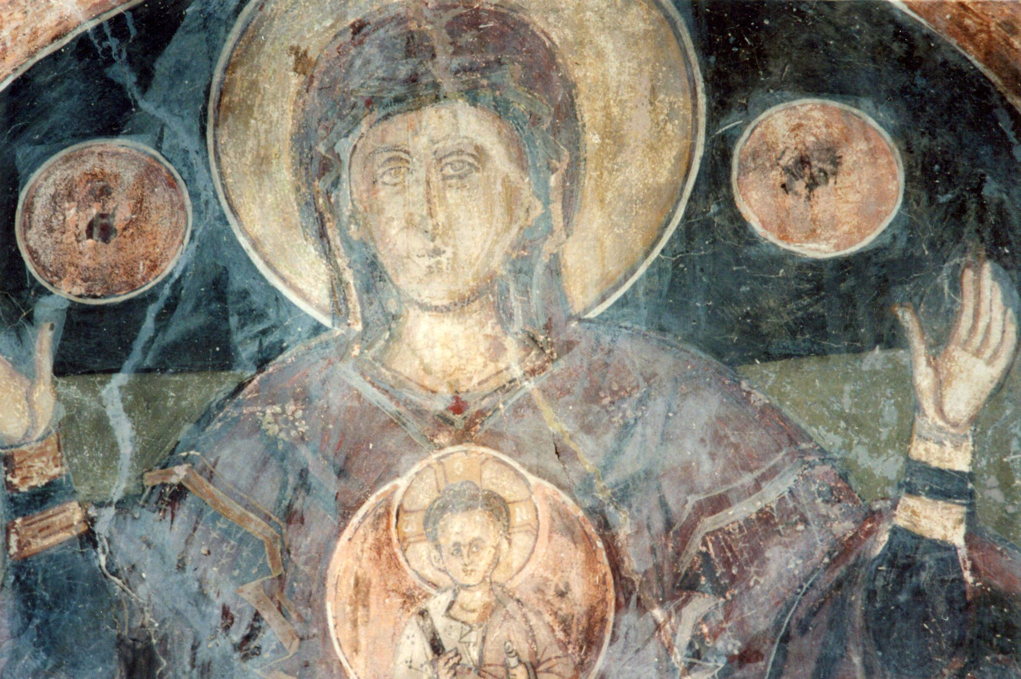 Saint Nicholas Bolnichki Church Fresco